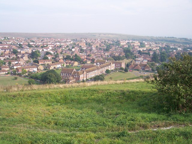 Whitehawk, Brighton. Taken from the Iron Age Hill Fort of White Hawk looking down on the area of Brighton adopting the name.